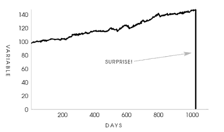 After Taleb's Black Swan